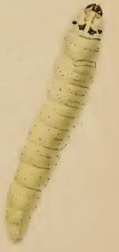 Stainton’s Natural History of the Tineina (1855–1873): Parornix fagivora